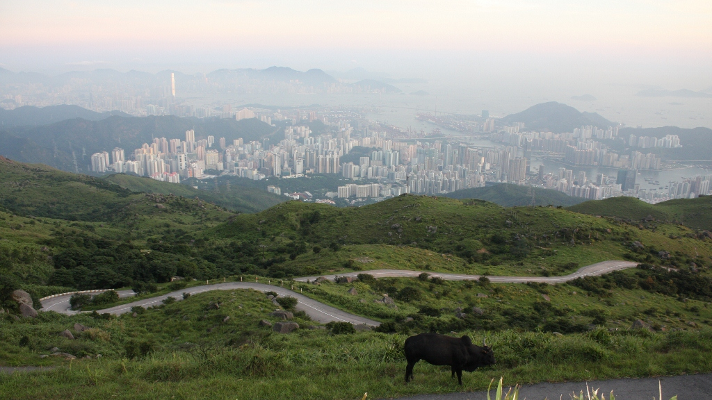 Not the usual skyline view of Hong Kong.